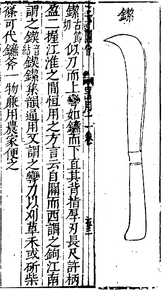 Billhook in Sancai Tuhui.